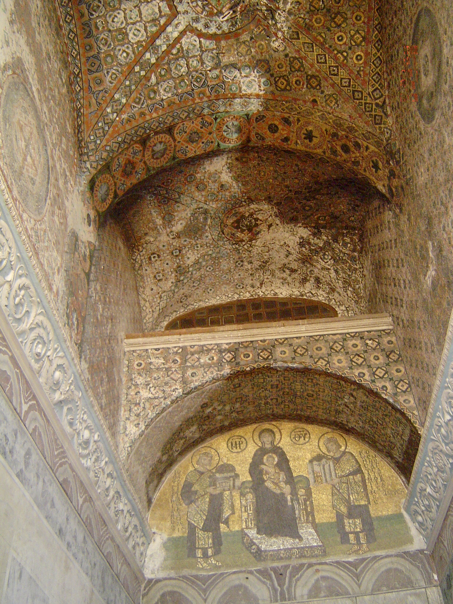 Mosaic of Mary & Jesus above the entrance door of Hagia Sofia